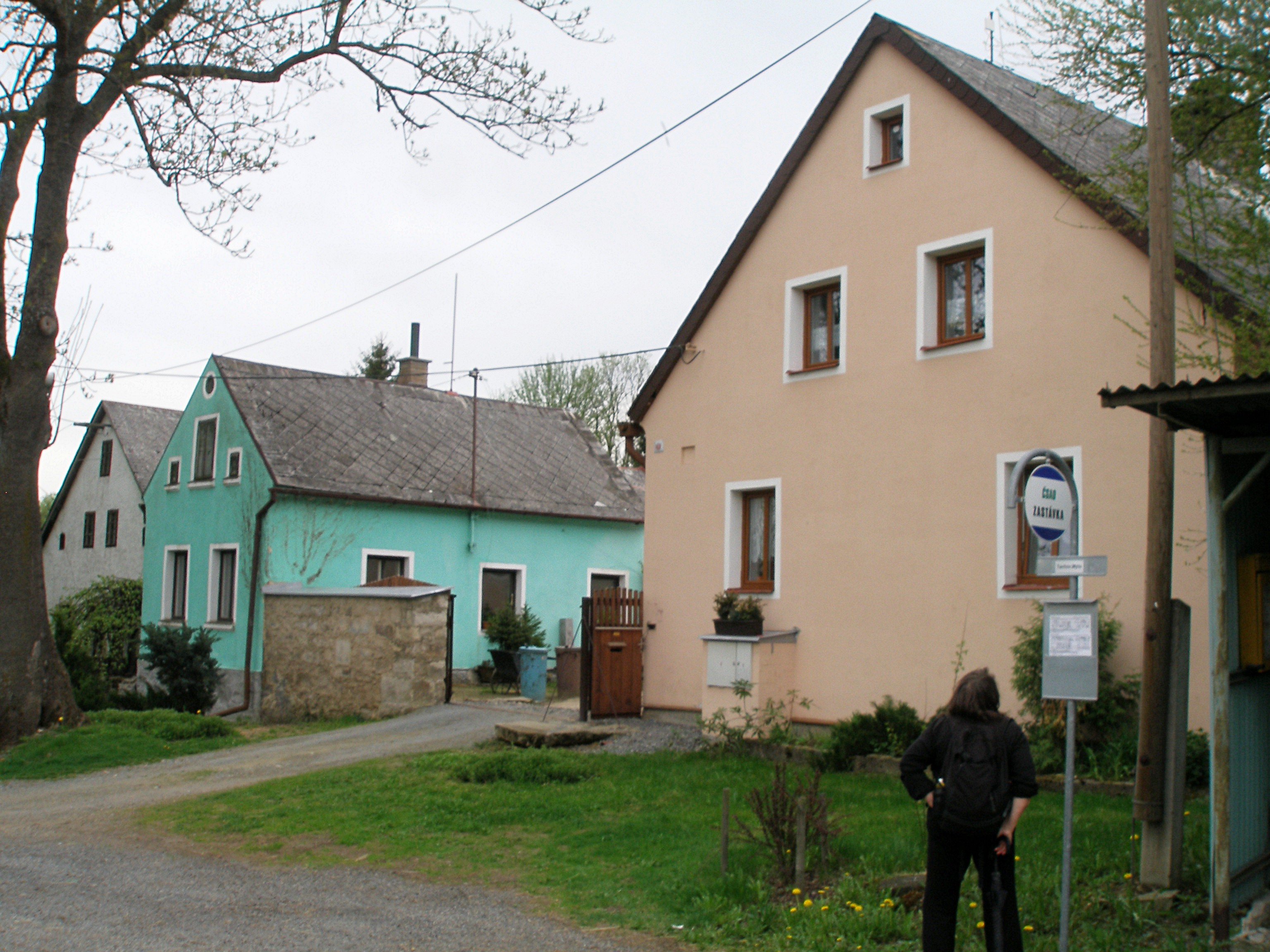 Houses on the southern side of the square in Mýto